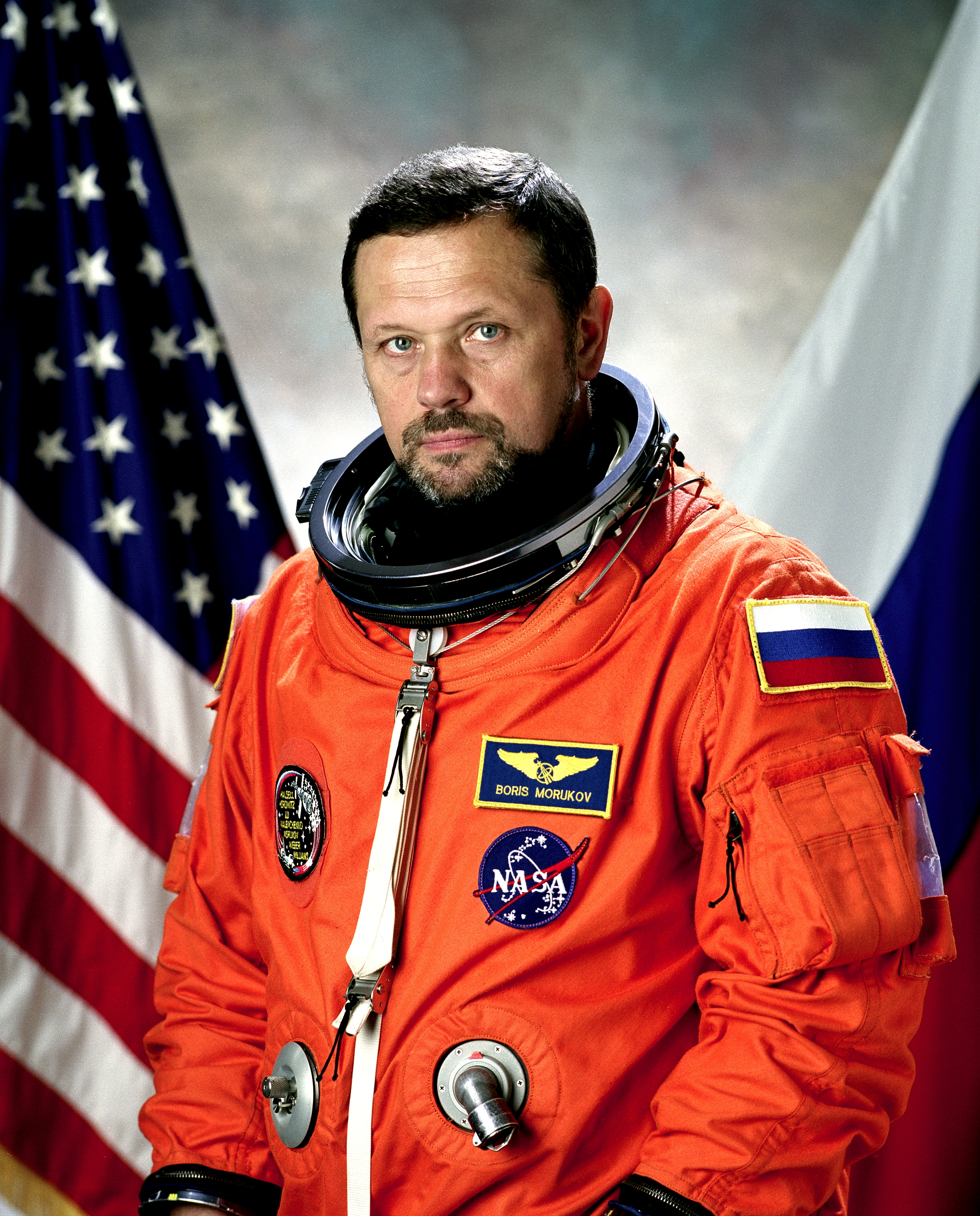 Cosmonaut Boris V. Morukov, Russian Space Agency (RSA), mission specialist